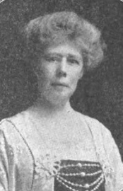 A middle-aged white woman with grey hair in a bouffant updo. She is wearing a dress with a square neckline and beaded embellishments across the bust.